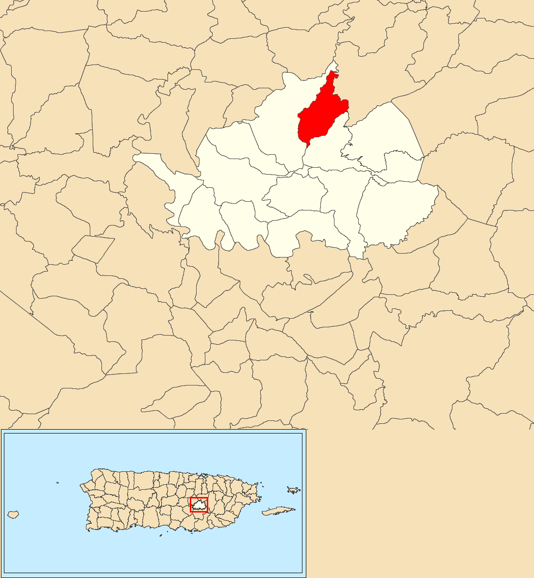 Monte Llano, Cidra, Puerto Rico locator map